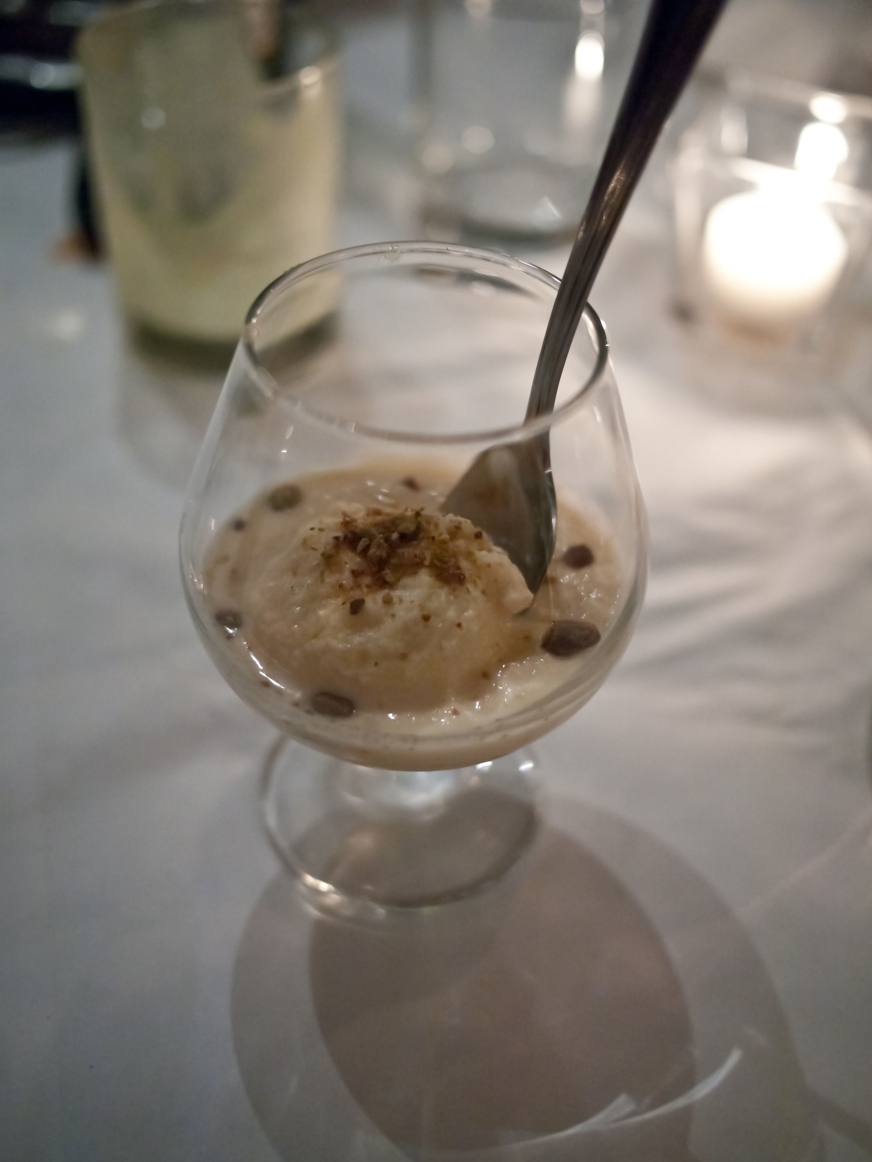 Indian cheese dumpling in saffron 2010-11-08